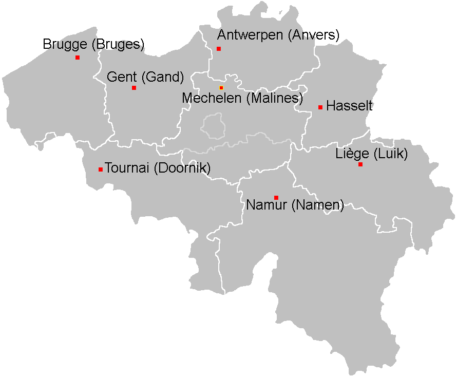 Map of Belgium Dioceses